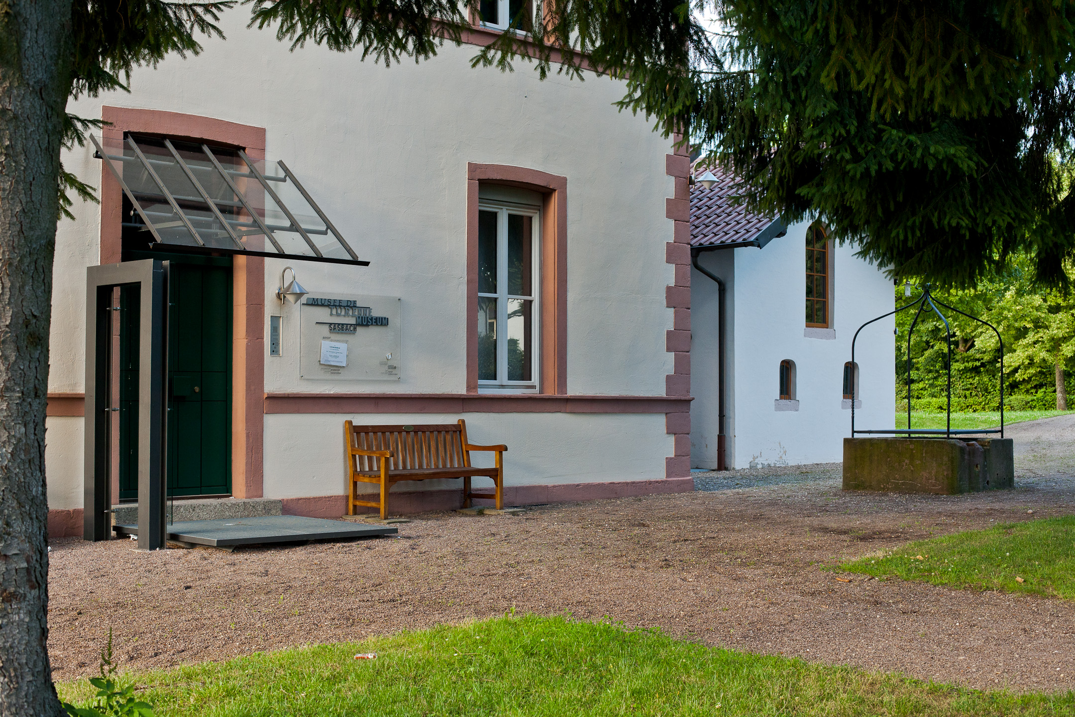 Turenne museum in Sasbach